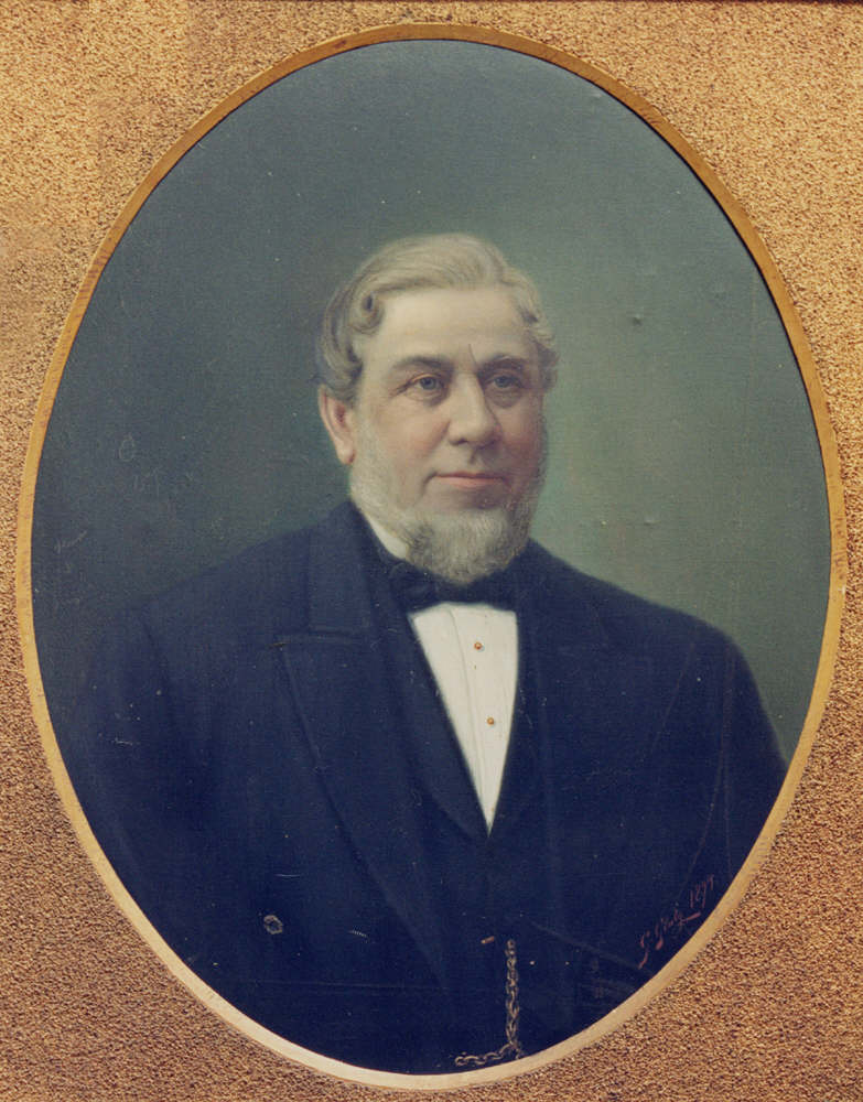 Portrait of John Hughes, founder of Hughesovka, 1894